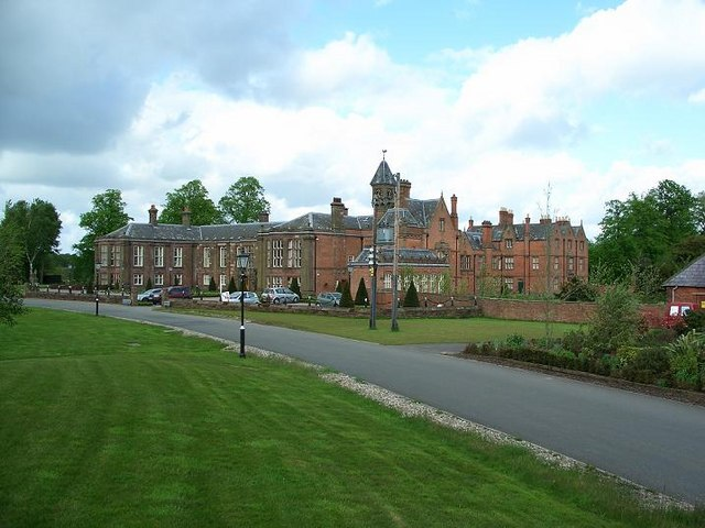 Vale Royal Abbey Golf Club house The Club house was built on the site of what was England's largest Cistercian Abbey, founded by Edward I, who in 1277 laid the first foundation stone. It took a further 53 years to complete the Abbey. When constructed, the Abbey was larger than Westminster Abbey. In the 16th century, following Henry VIII's Reformation and Dissolution of the Monasteries Acts, Thomas Holdcroft purchased the estate and pulled down the Abbey and built the Great House.